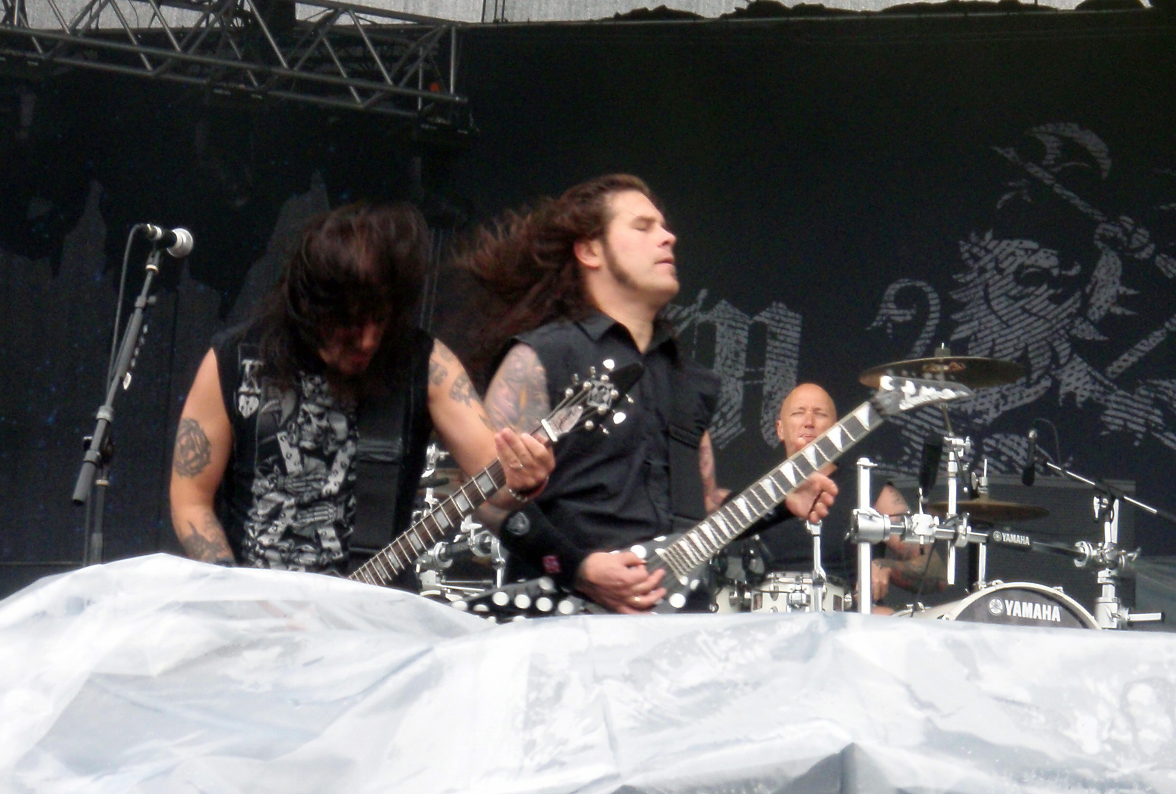 Robb Flynn, Phil Demmel and Dave McClain from Machine Head performing at Sonisphere Festival in Kirjurinluoto, Pori, Finland.